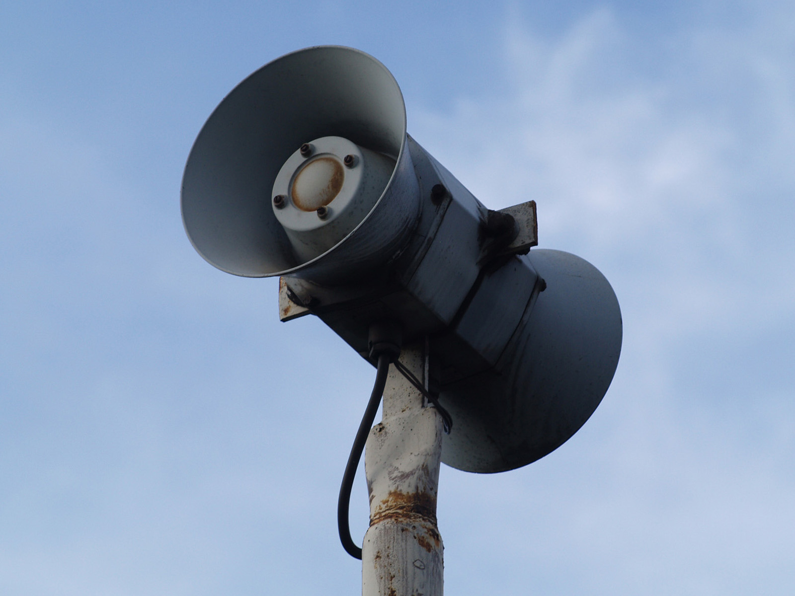 Back to back horn loudspeakers mounted on a pole.